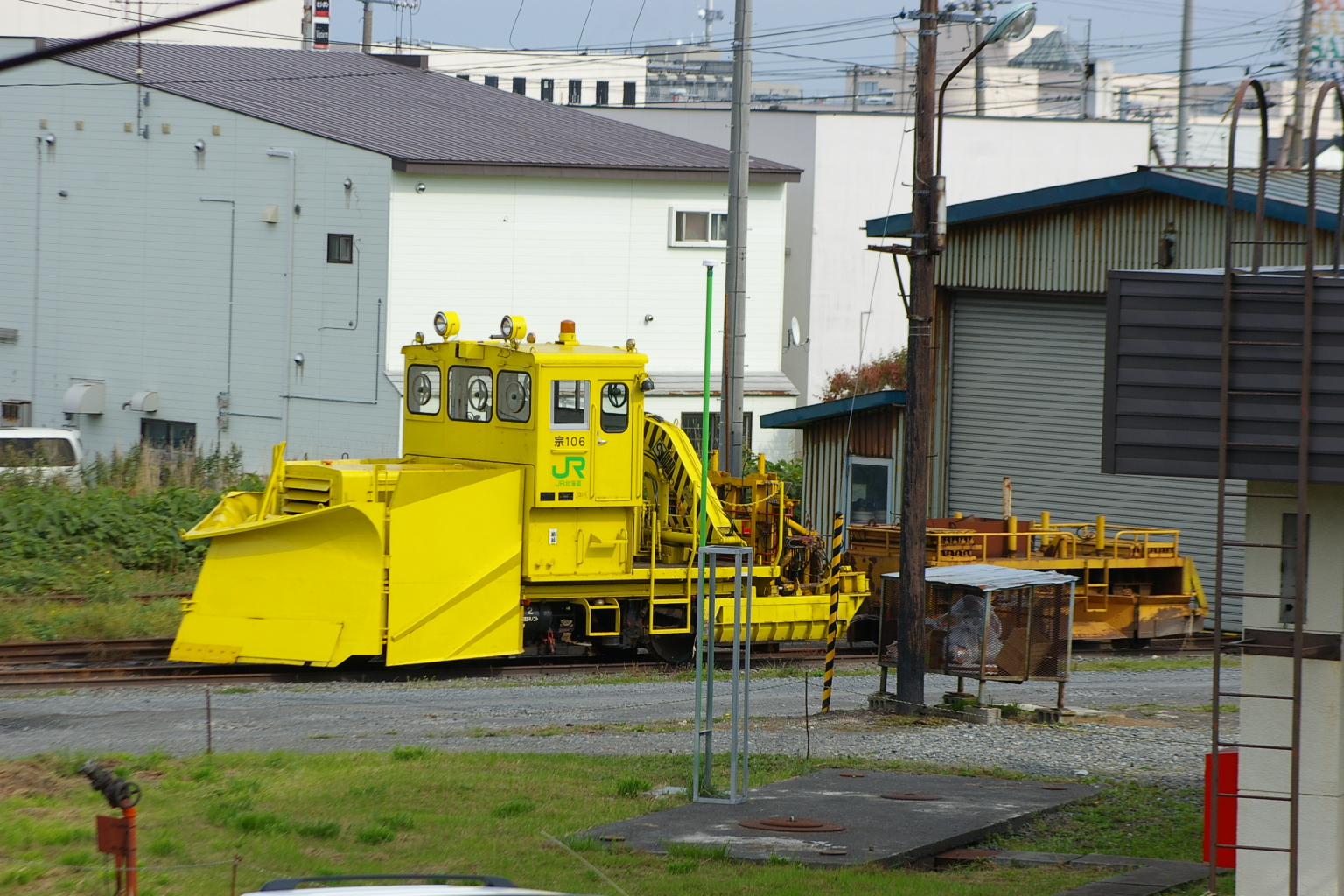 JR Hokkaido Motorcar for working.